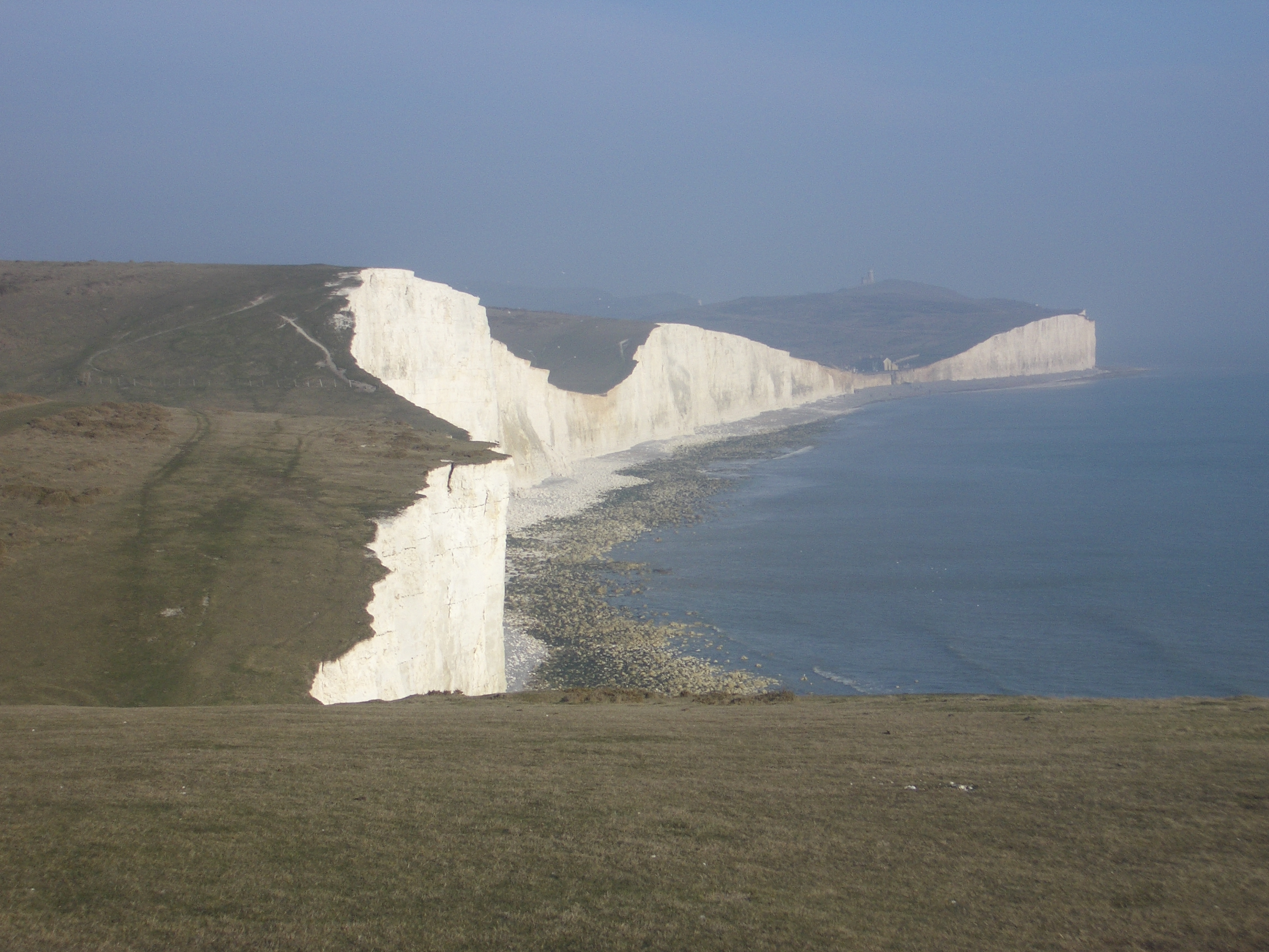 The Seven Sisters Cliffs at the coast of Sussex.